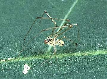 male Chrysso spiniventris from Okinawa.